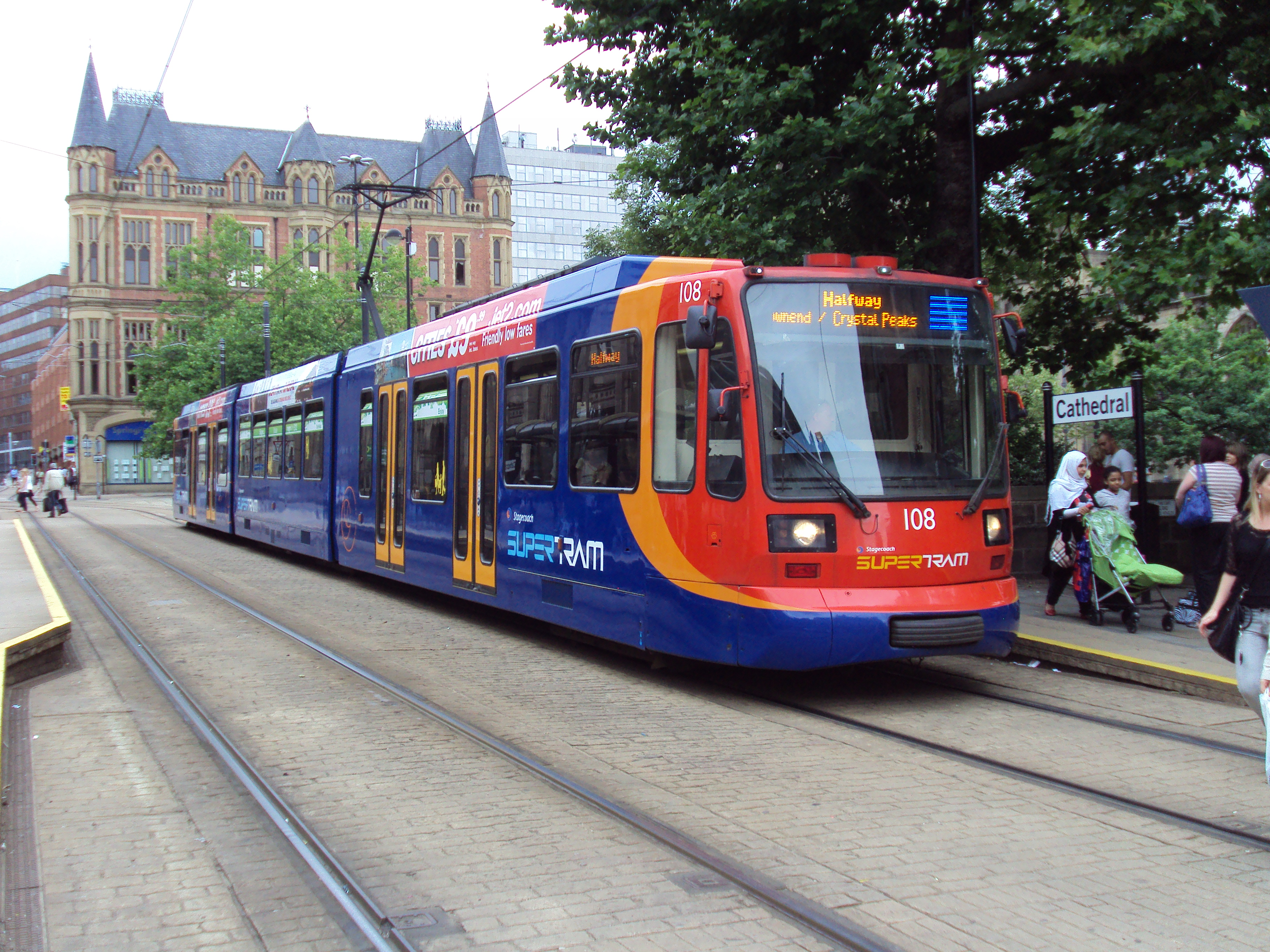 Sheffield Supertram at Cathedral tram stop, Sheffield, England.